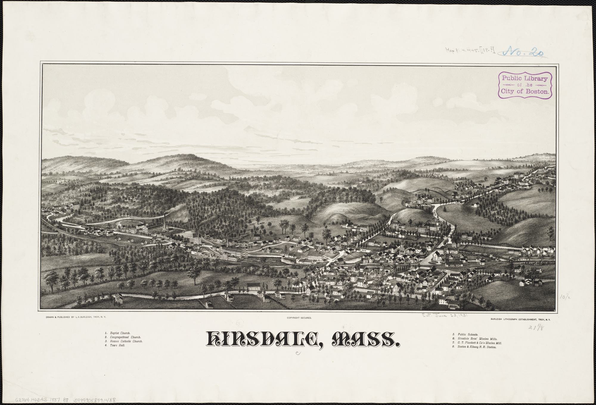 Zoom into this map at . Author: Burleigh, L. R. Publisher: L.R. Burleigh Date: [1887?] Location: Hinsdale (Mass. : Town) Scale: Not drawn to scale. Call Number: G3764.H63A3 1887.B8